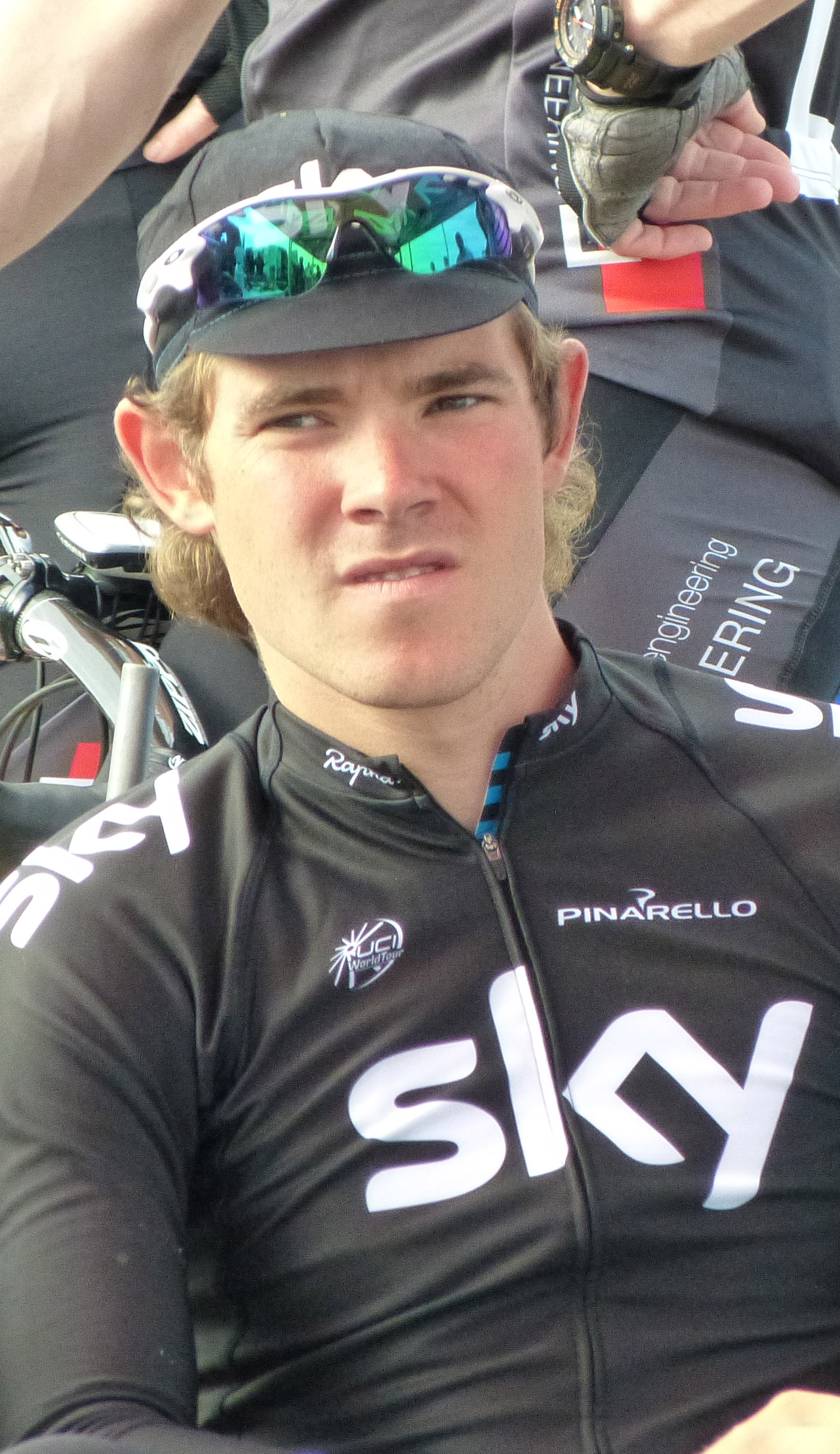 British National Road Race Championships 2013